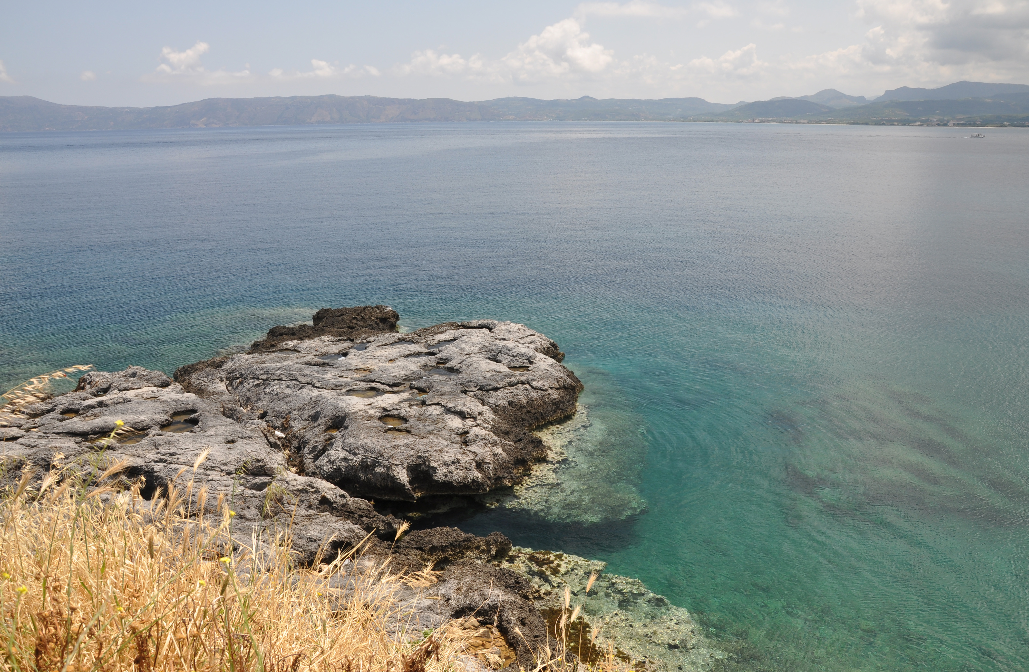 Gulf of Kissamos at the morth-west cost of Crete in Greece.